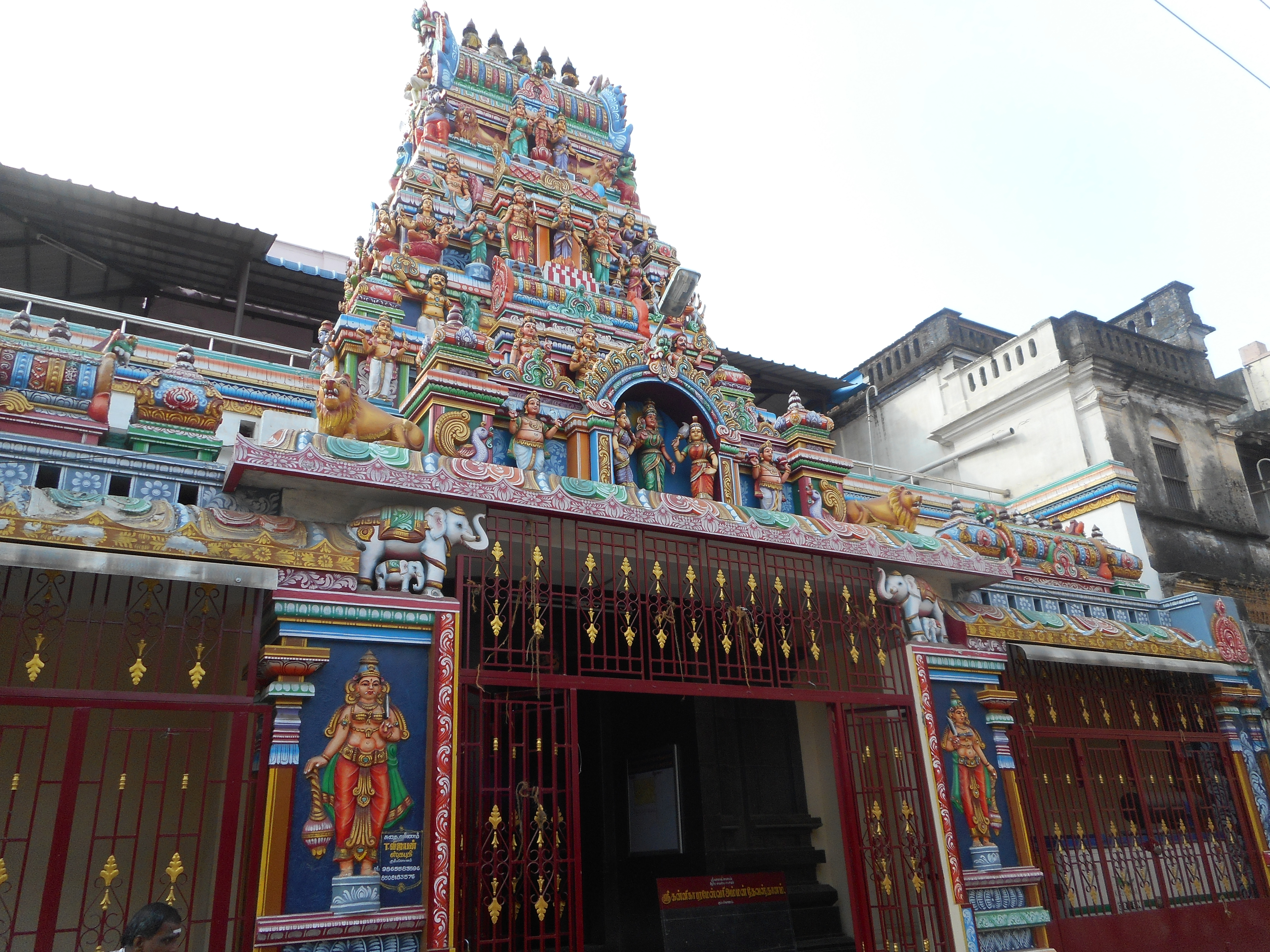 Kumbakonam Kannikaparameswari temple கும்பகோணம் கன்னிகாபரமேஸ்வரி கோயில்